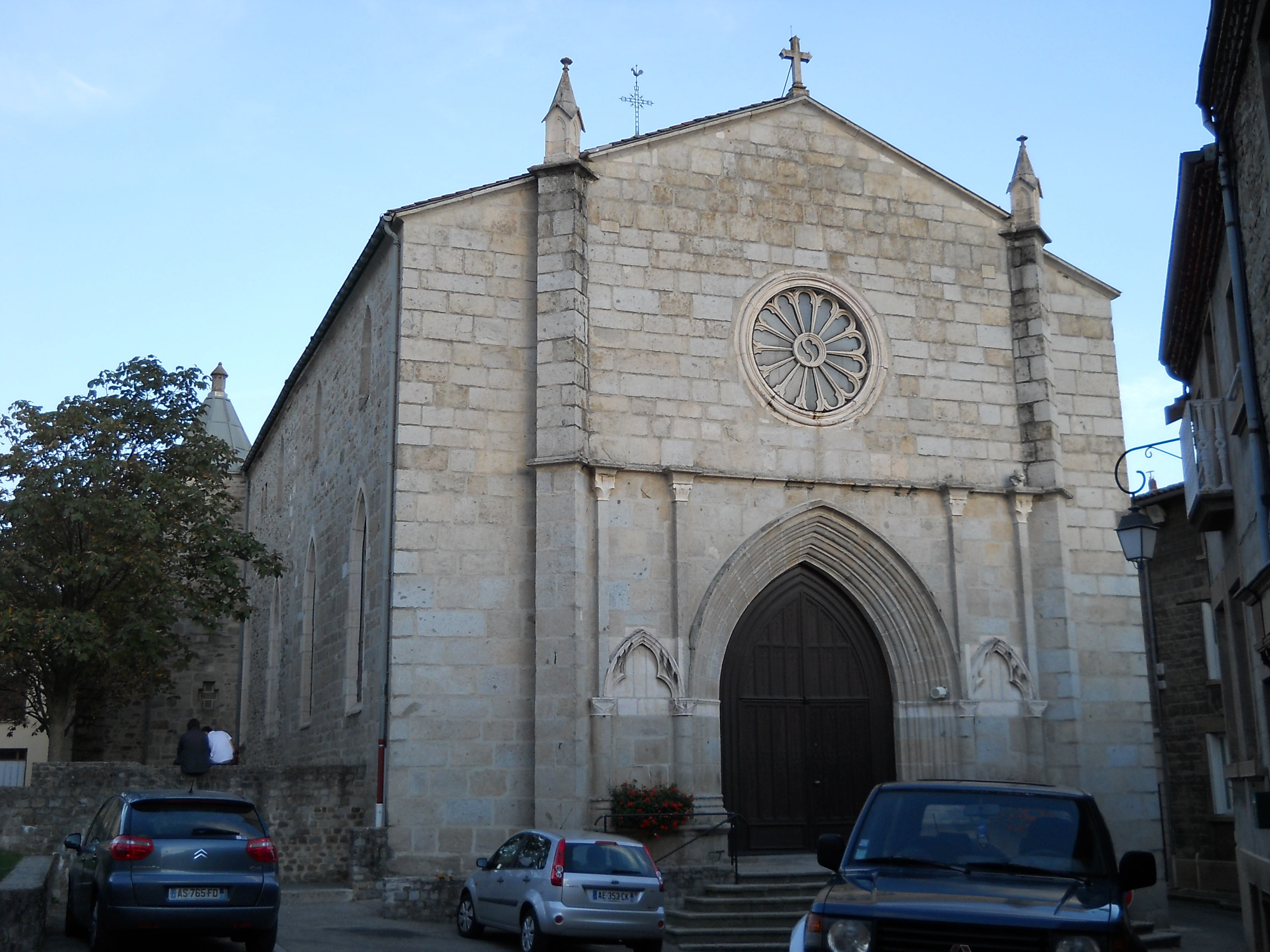 St. Peter church, Mornant, Rhône, France